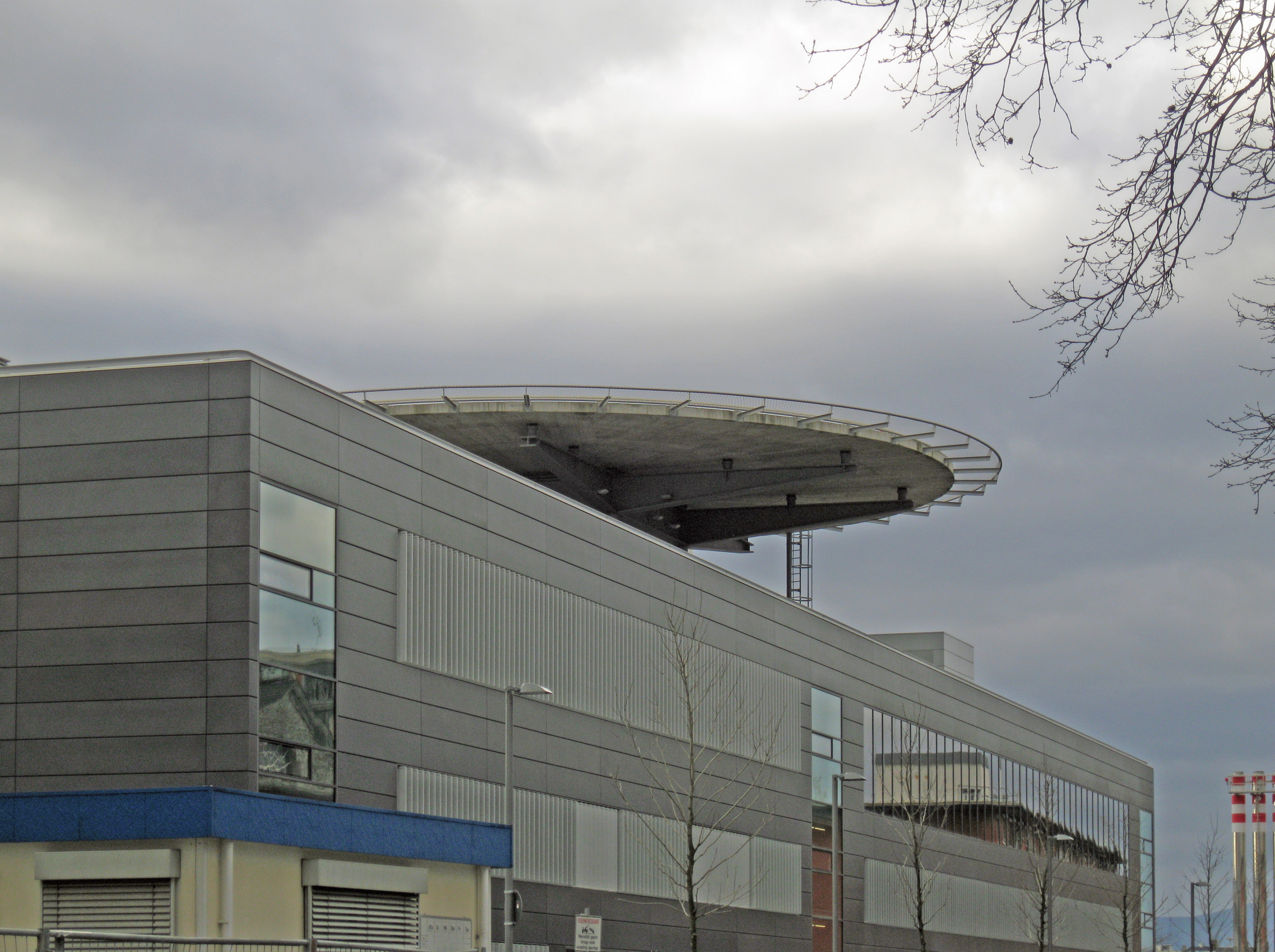 University hospital Frankfurt, Heliport